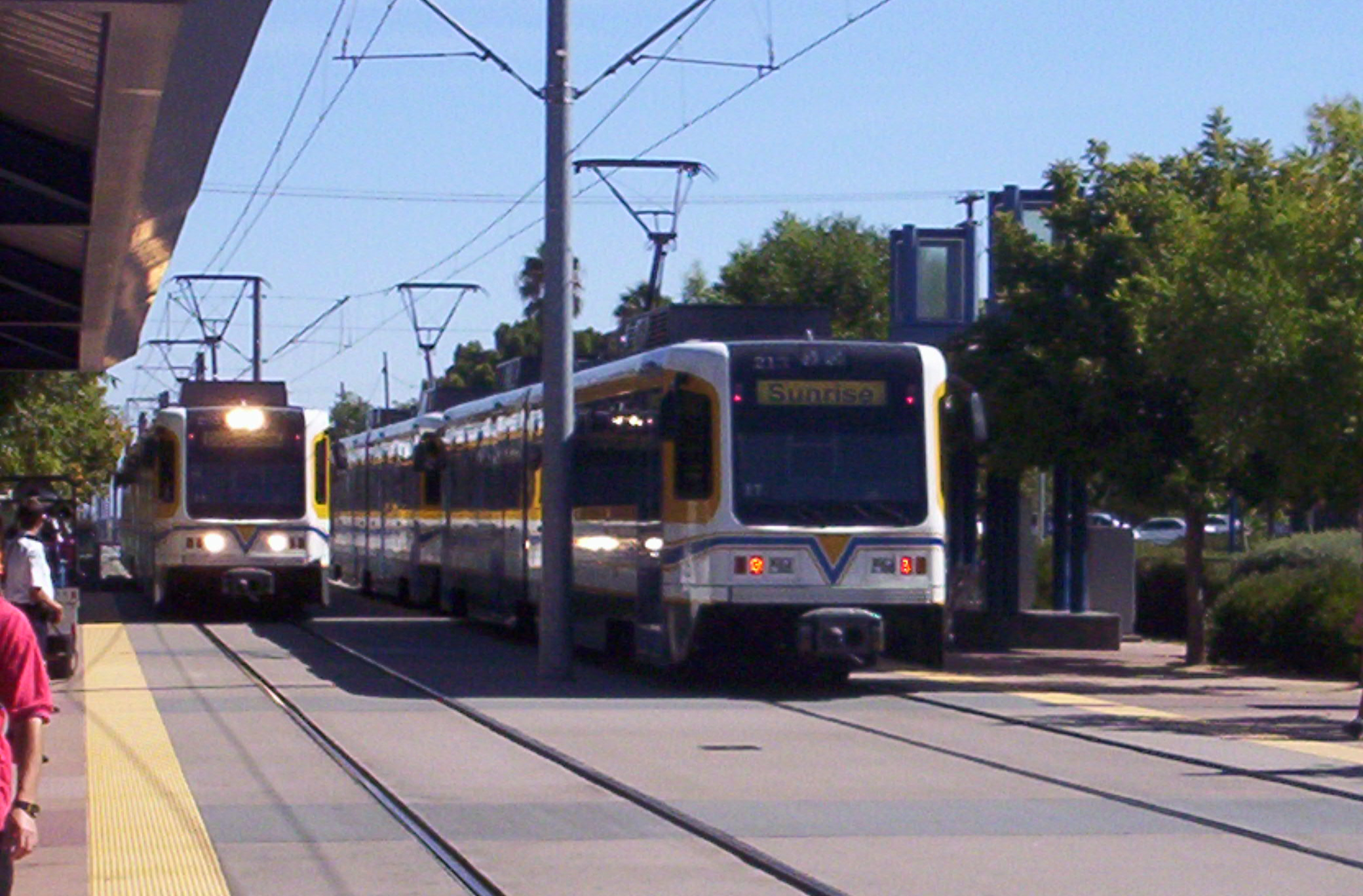 Two CAF-built trainsets on the Sacramento light rail system, passing at Mather Field/Mills station